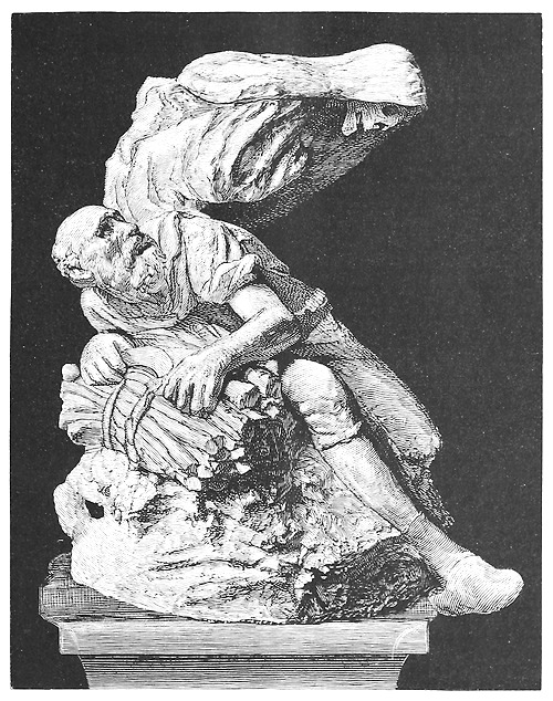 An etching of Alphonse Legros' clay sculpture, "Death and the Woodman", published in The Magazine of Art V, 1882